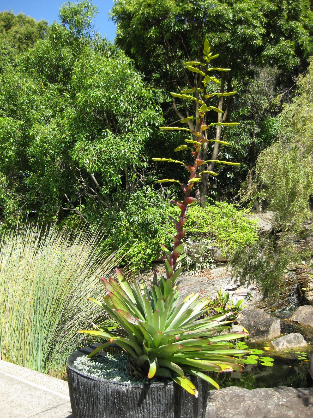 Photographed at the Royal Botanic Gardens Sydney (Australia) in December